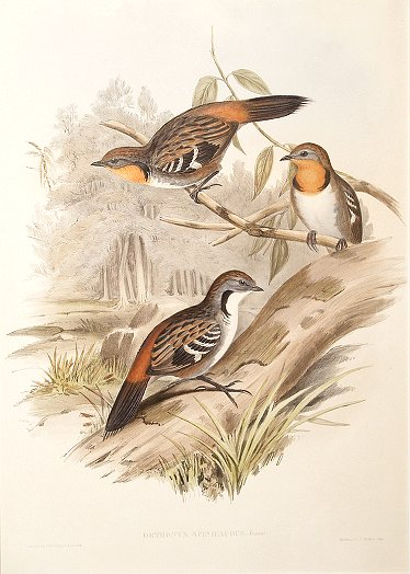 From John Gould's The Birds of Australia